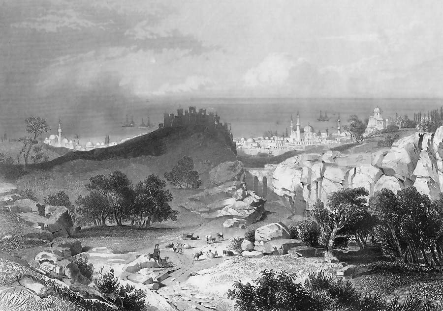 Trabzon rom the southwest in 1853 by Albert Payne